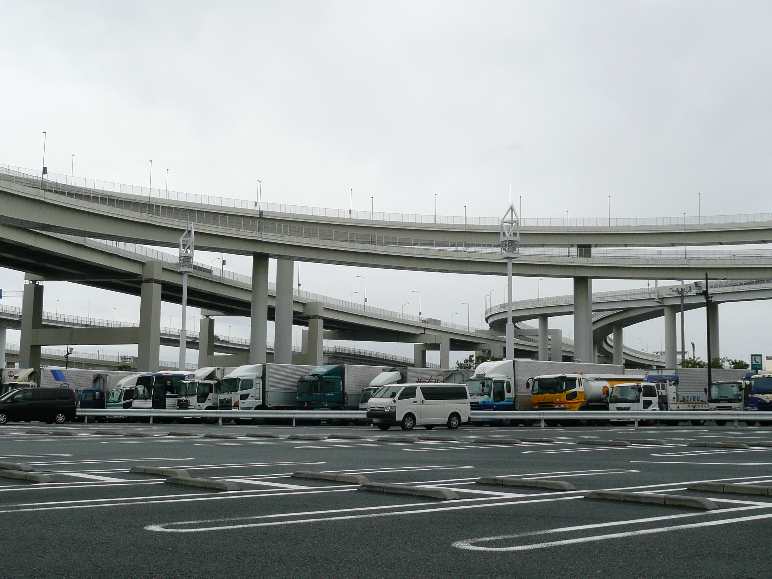 Daikoku Junction seen from Daikoku Parking Area. The rampways are built circularly above the parking area